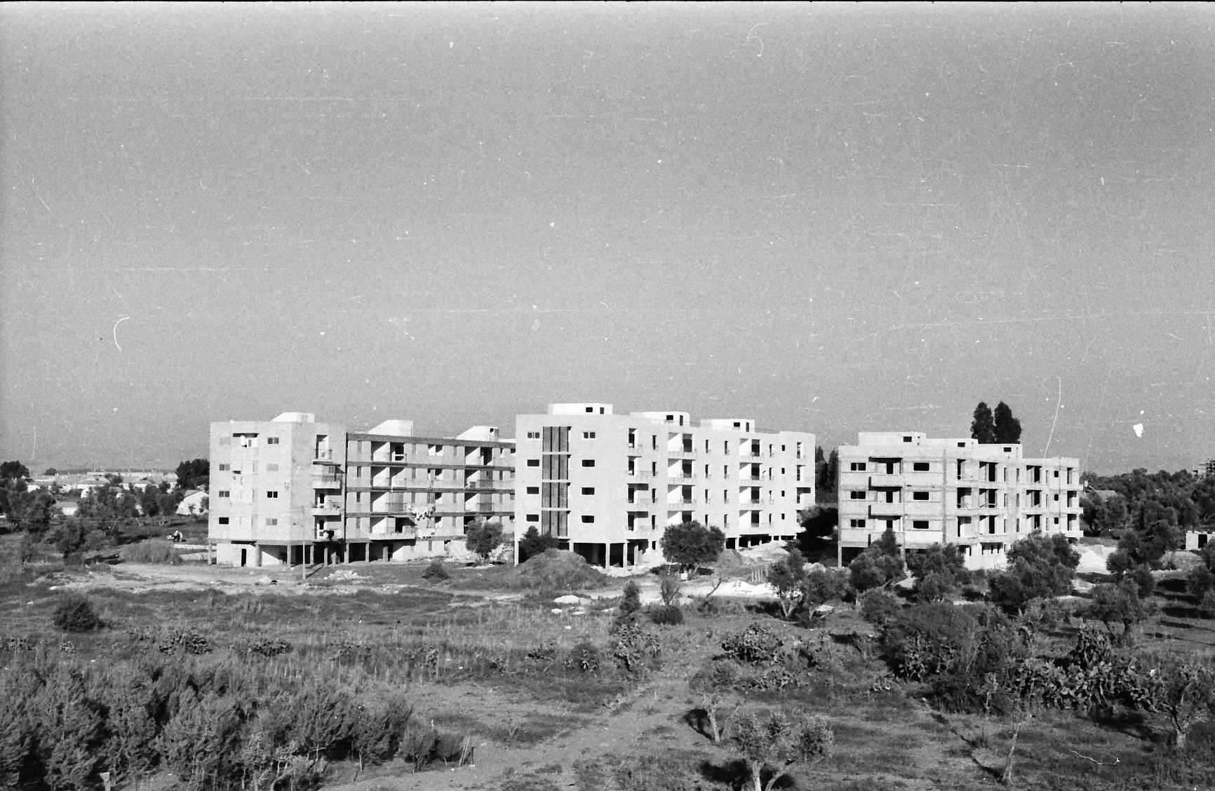 Architecture of Israel